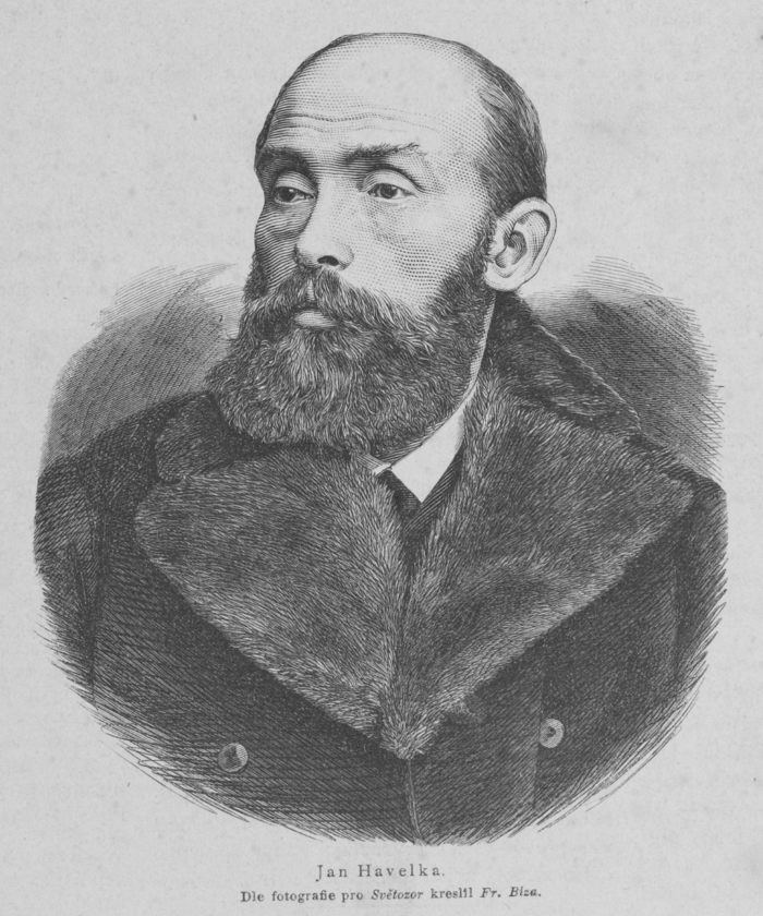 Portrait of Jan Havelka (1839-1886), Moravian teacher and writer.